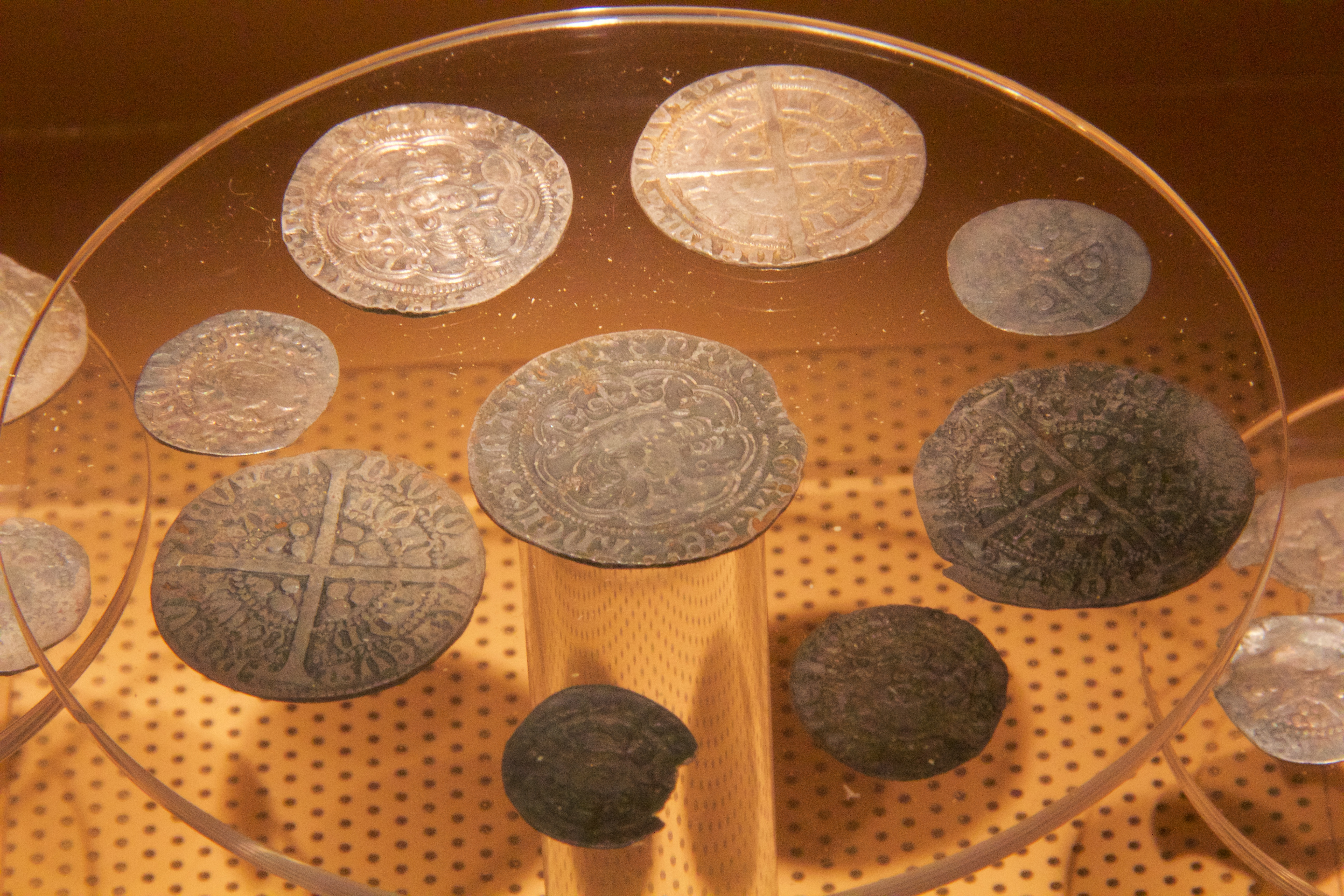 Wikimedia editathon at Clitheroe Castle Museum.